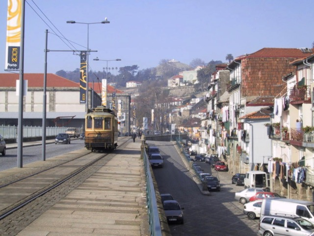 Miragaia with at the left Alfândega